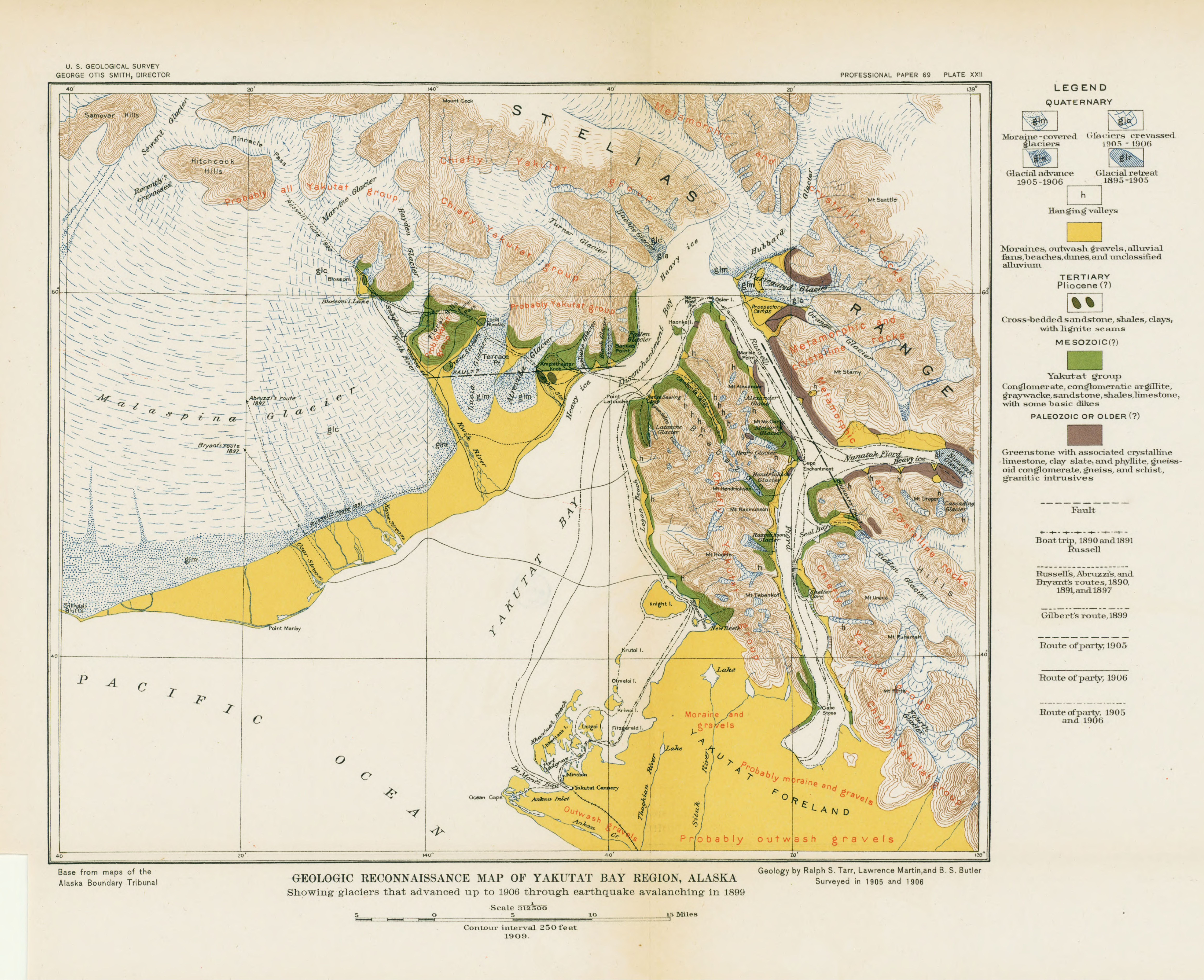 Plate XXII from Tarr, R.S. The Earthquakes At Yakutat Bay Alaska In September 1899 showing glaciers that advanced up to 1906 through earthquake avalanching in 1899